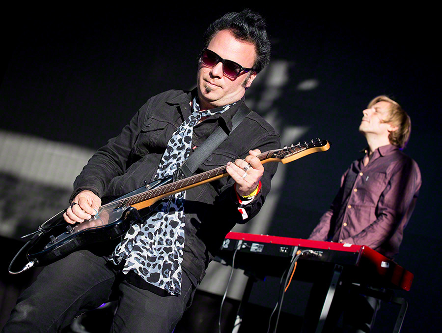 Mercury Rev performs at Quart Festival in Kristiansand on 28. June 2016. Lineup:Jonathan Donahue (guitar / vocal)Grasshopper (guitar)Carlos Anthony Molina (bass)Jason Miranda (drums)